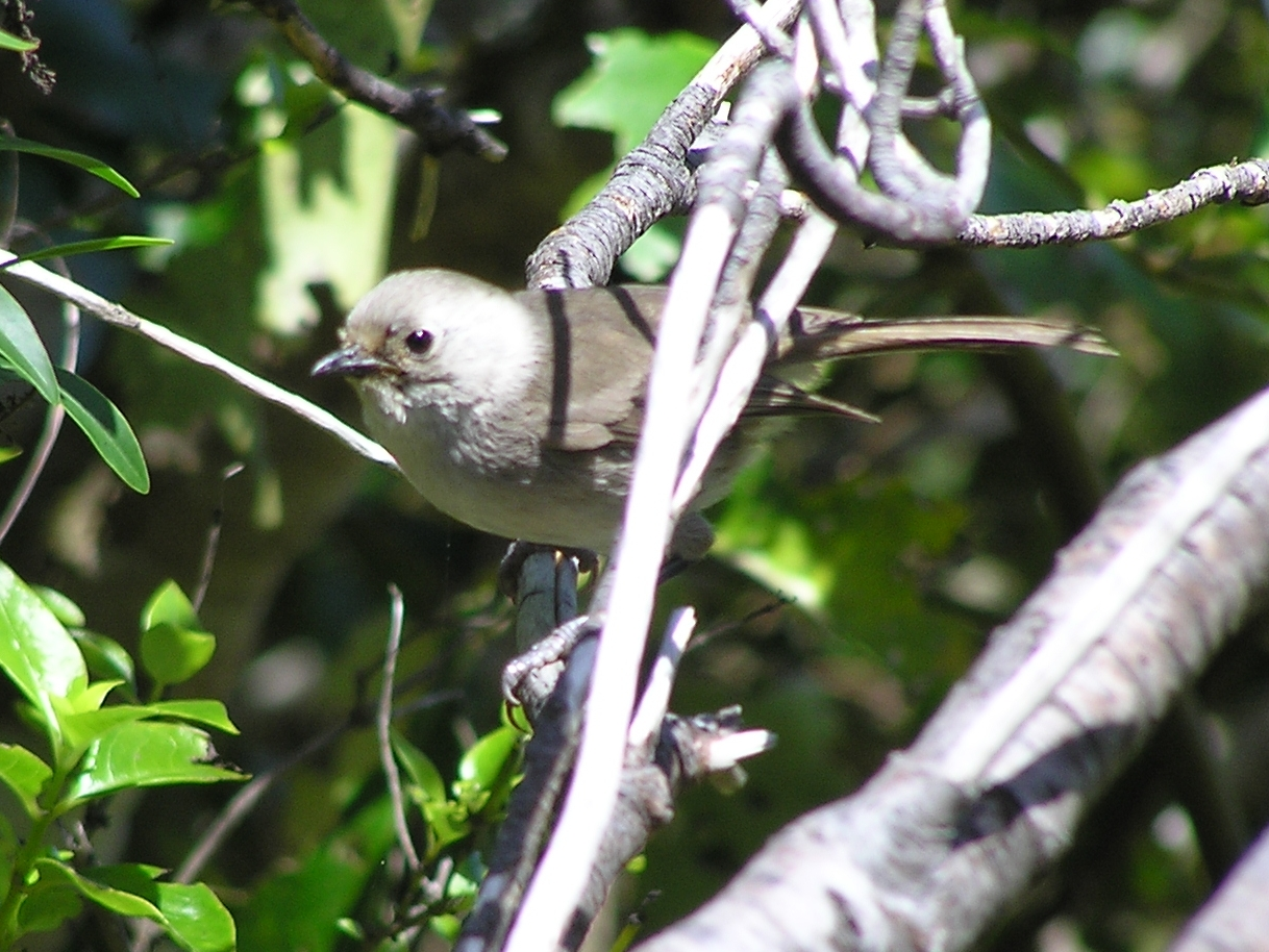 New Zealand Whitehead Māori: Popokotea